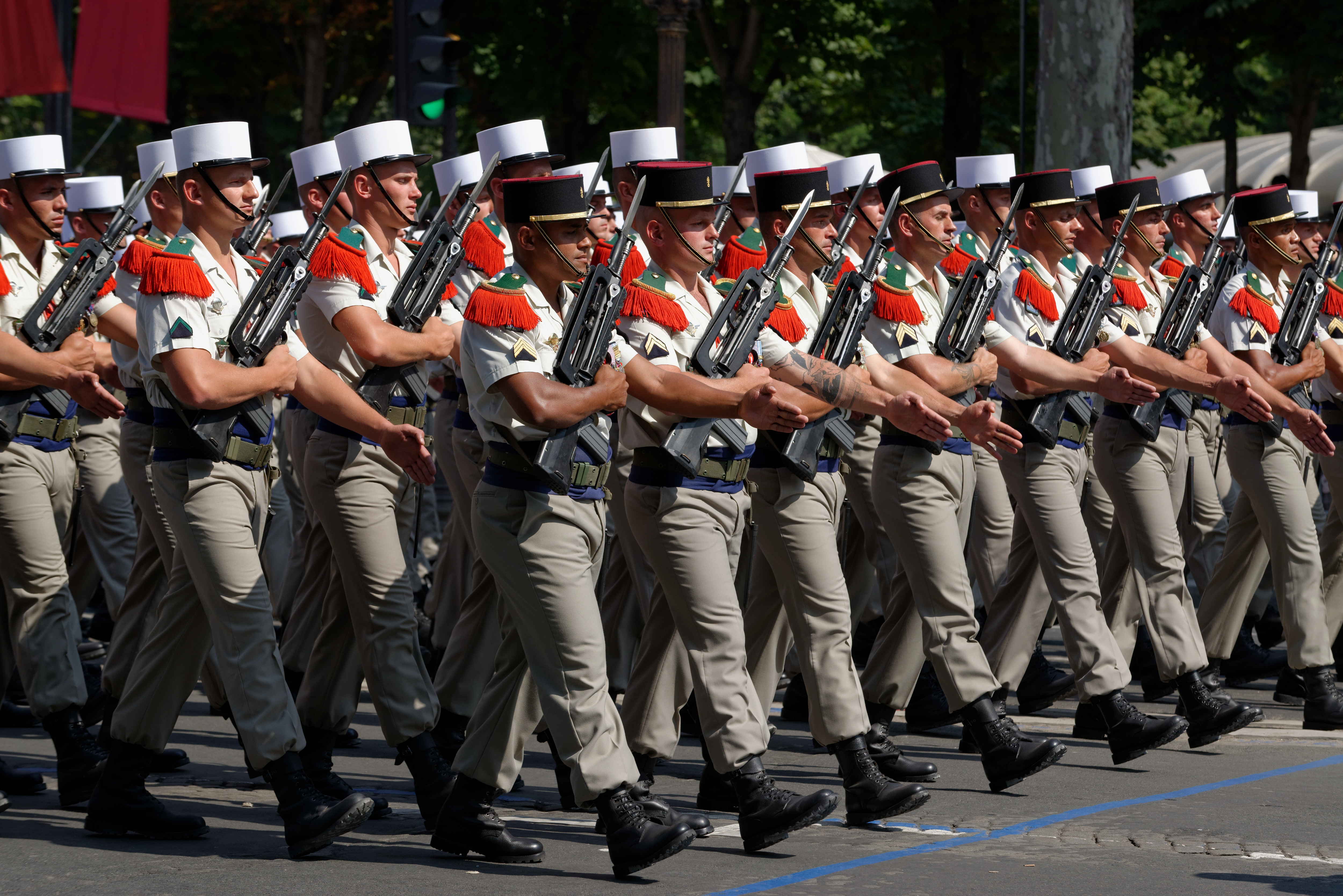 2nd Foreign Parachute Regiment at the Bastille Day 2013 military parade on the Champs-Élysées in Paris.